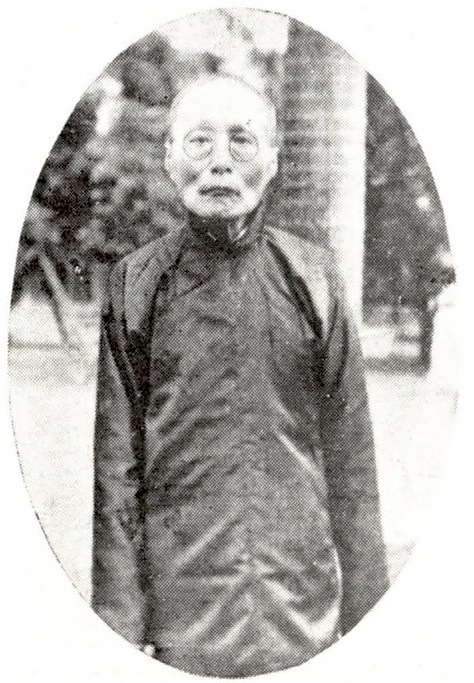 Ong Siong 王松